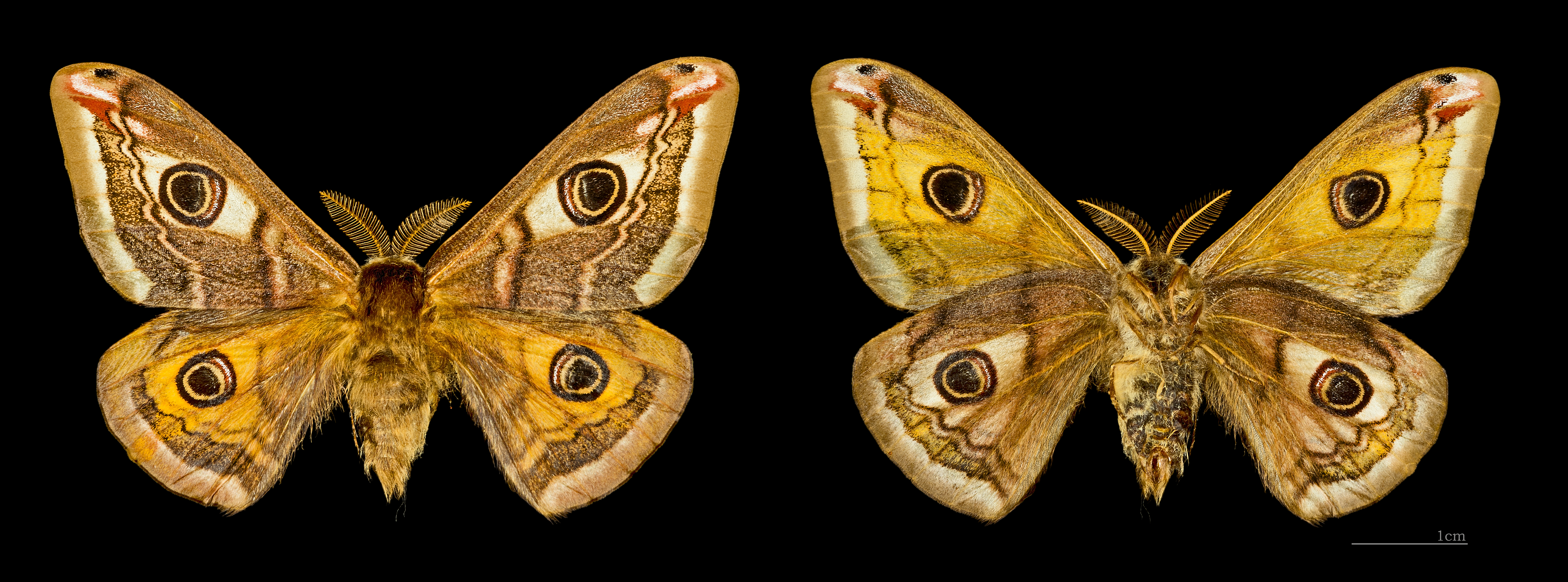 Small Emperor Moth - Two views of same specimen